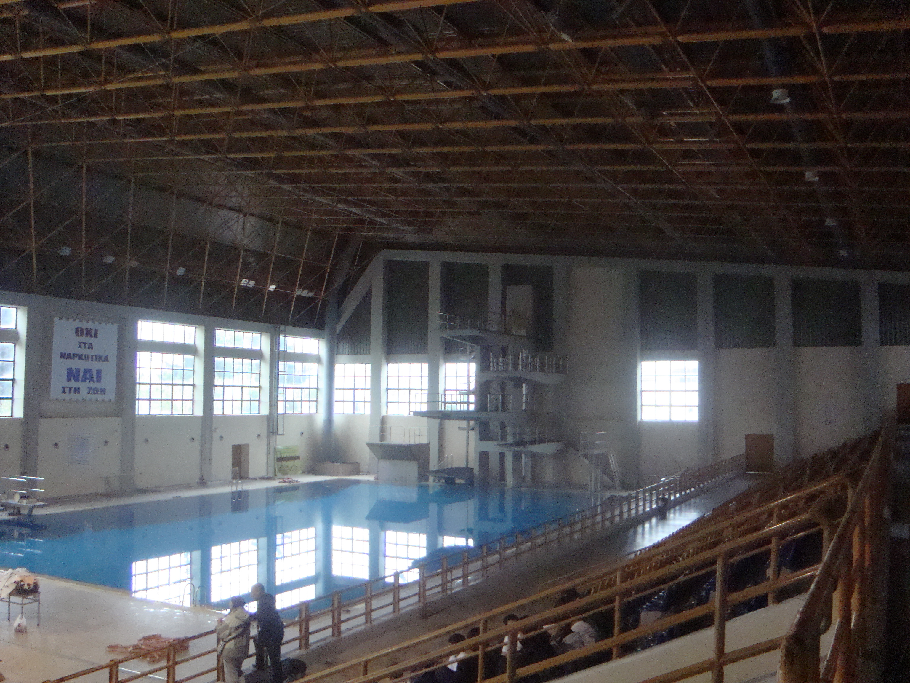 "Antonis Pepanos" (olumpic metalist 1896) swimming pool in Pampeloponisiako sports center in Patra